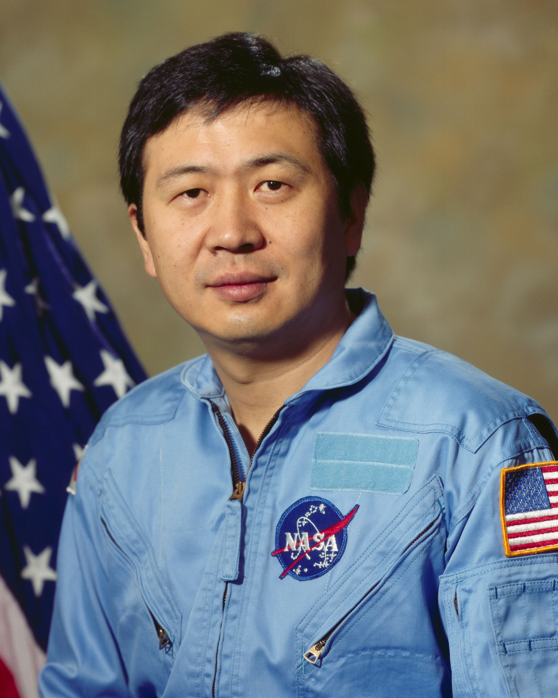 Portrait of Taylor E. Wang, payload specialist for the 51-B mission.